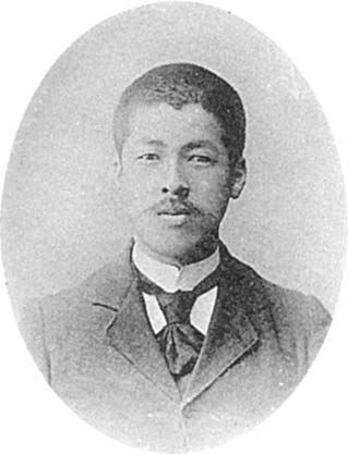 K. Jimbo, Professor of Geology, Palaeontology & Mineralogy.